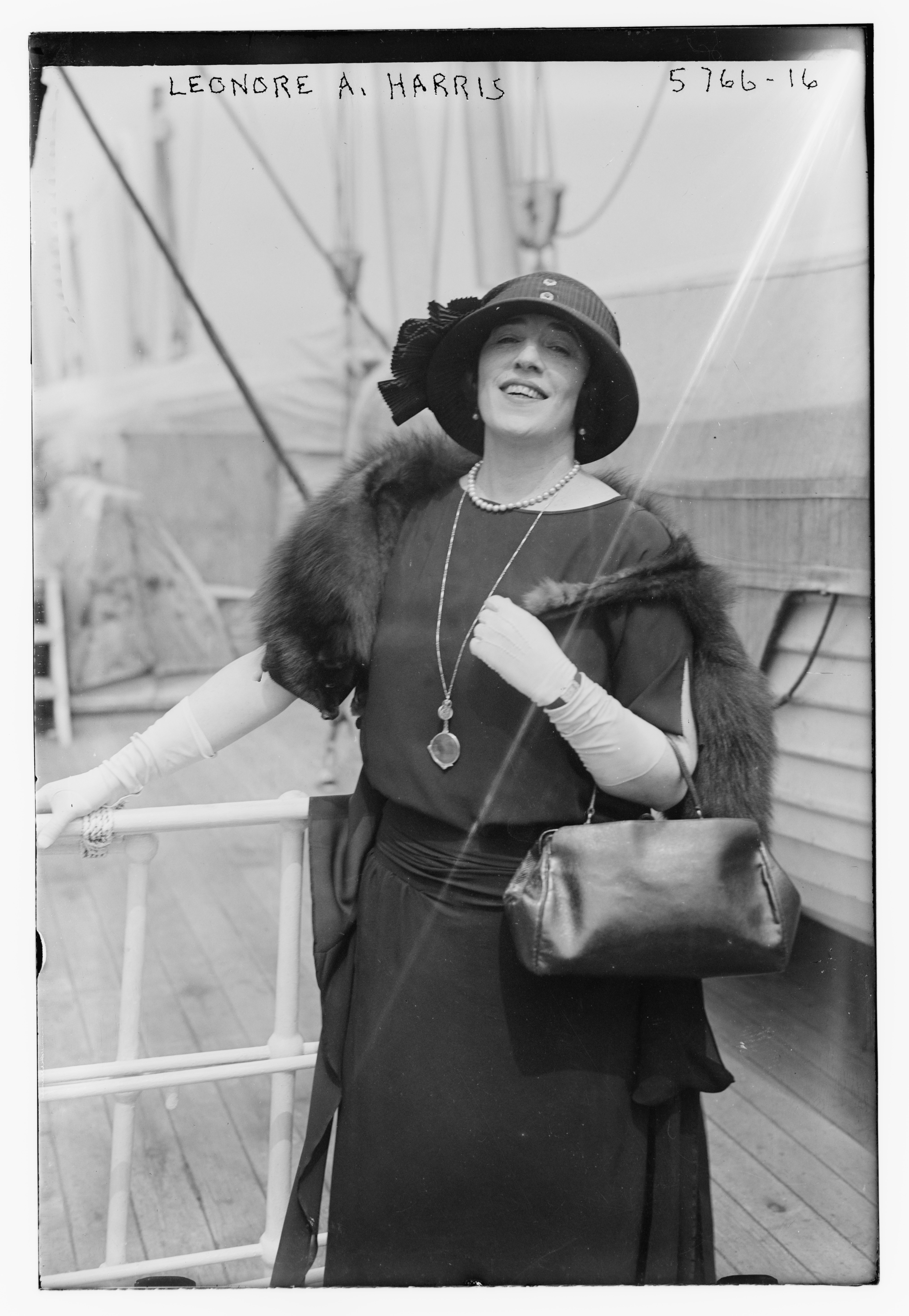 Title: Leonore A. Harris Abstract/medium: 1 negative : glass ; 5 x 7 in. or smaller.